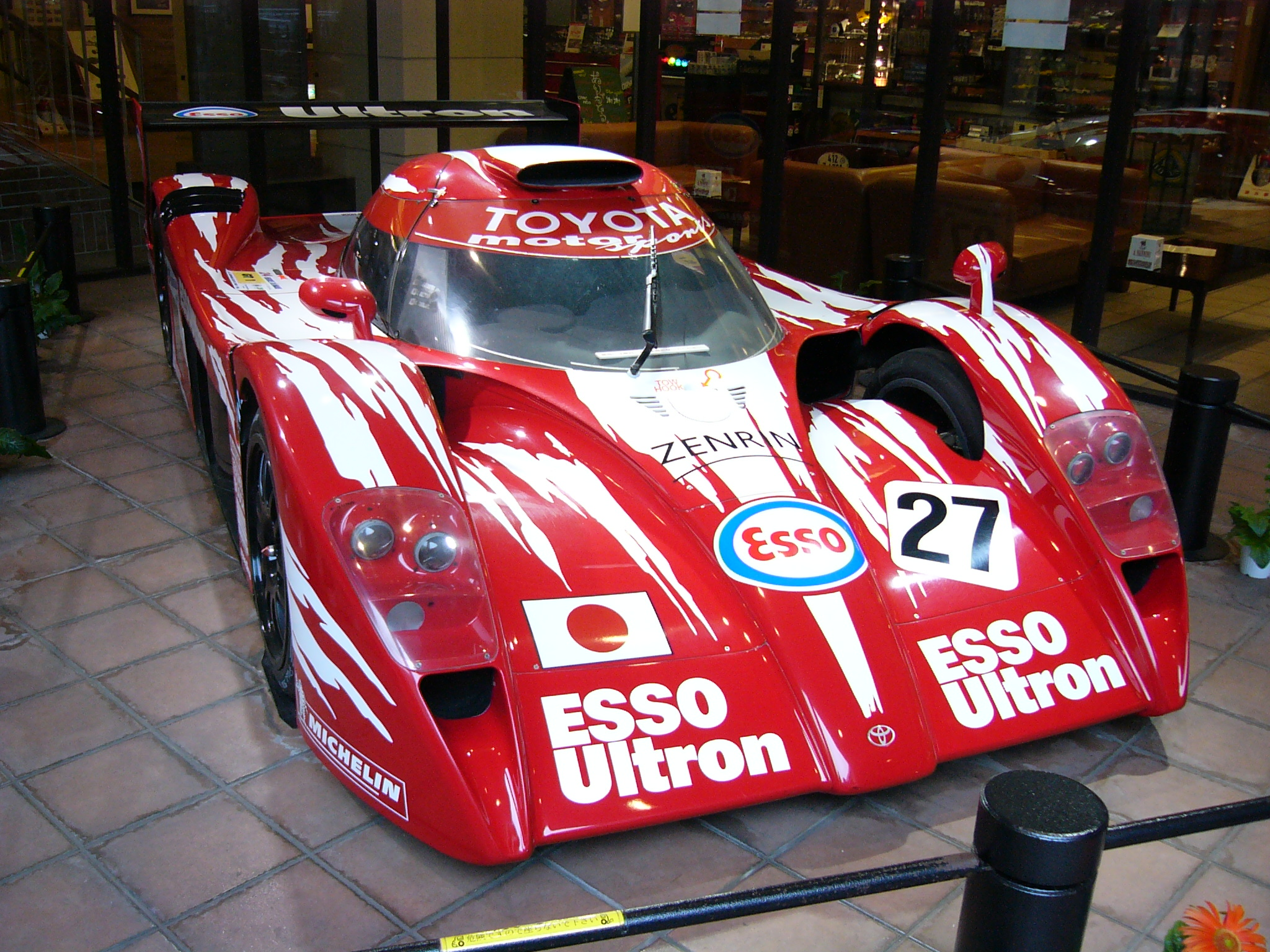 author:nori